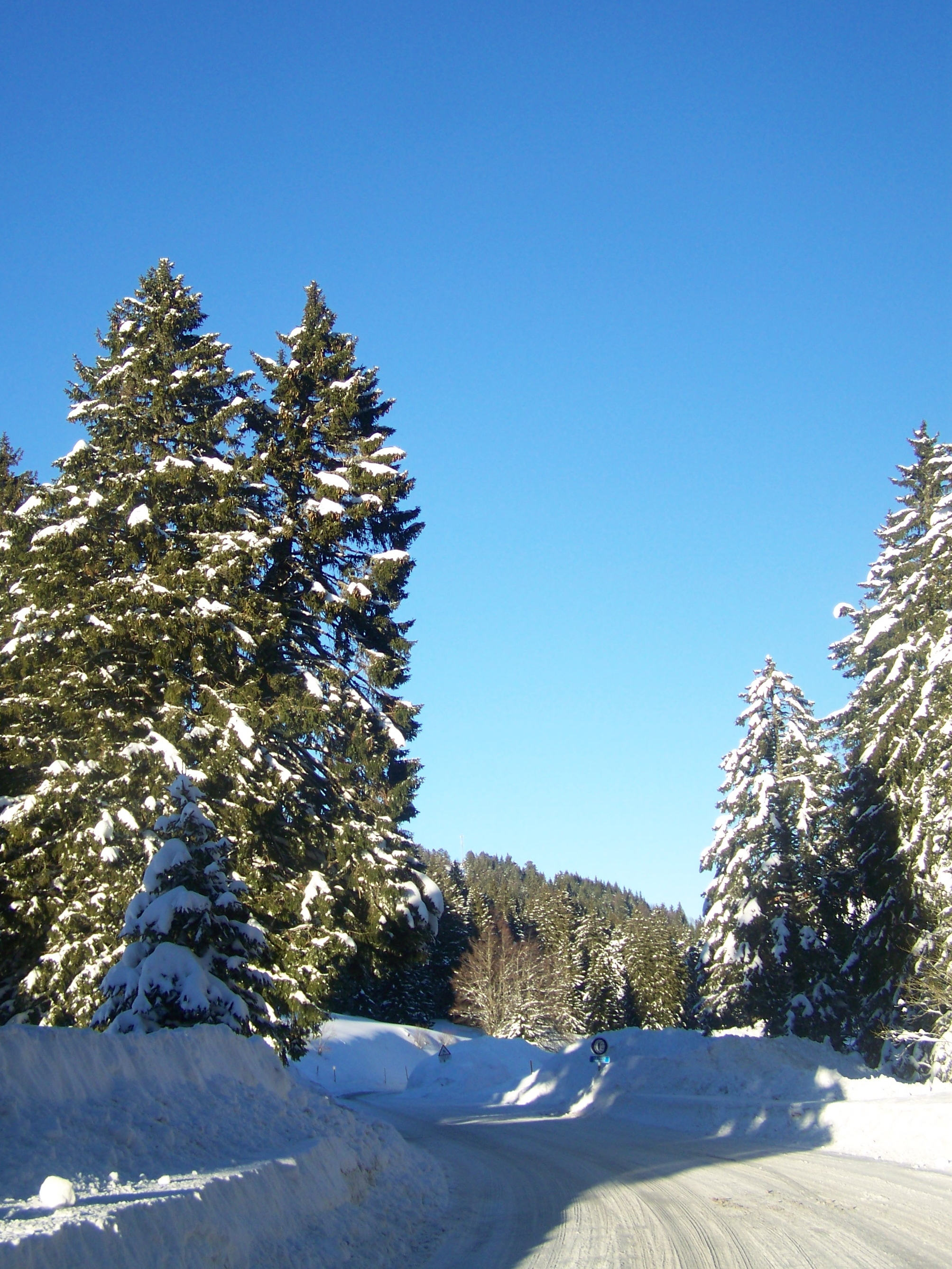 Sight in winter, of RD 913 "departmenal road, leaving Le Revard (about 1 500 m high) and going down to Aix-les-Bains in Savoie, France.